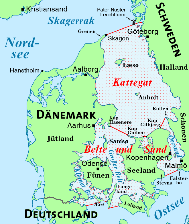 Map of the Kattegat